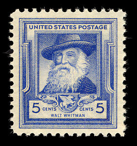 1948 US stamp honoring Walt Whitman